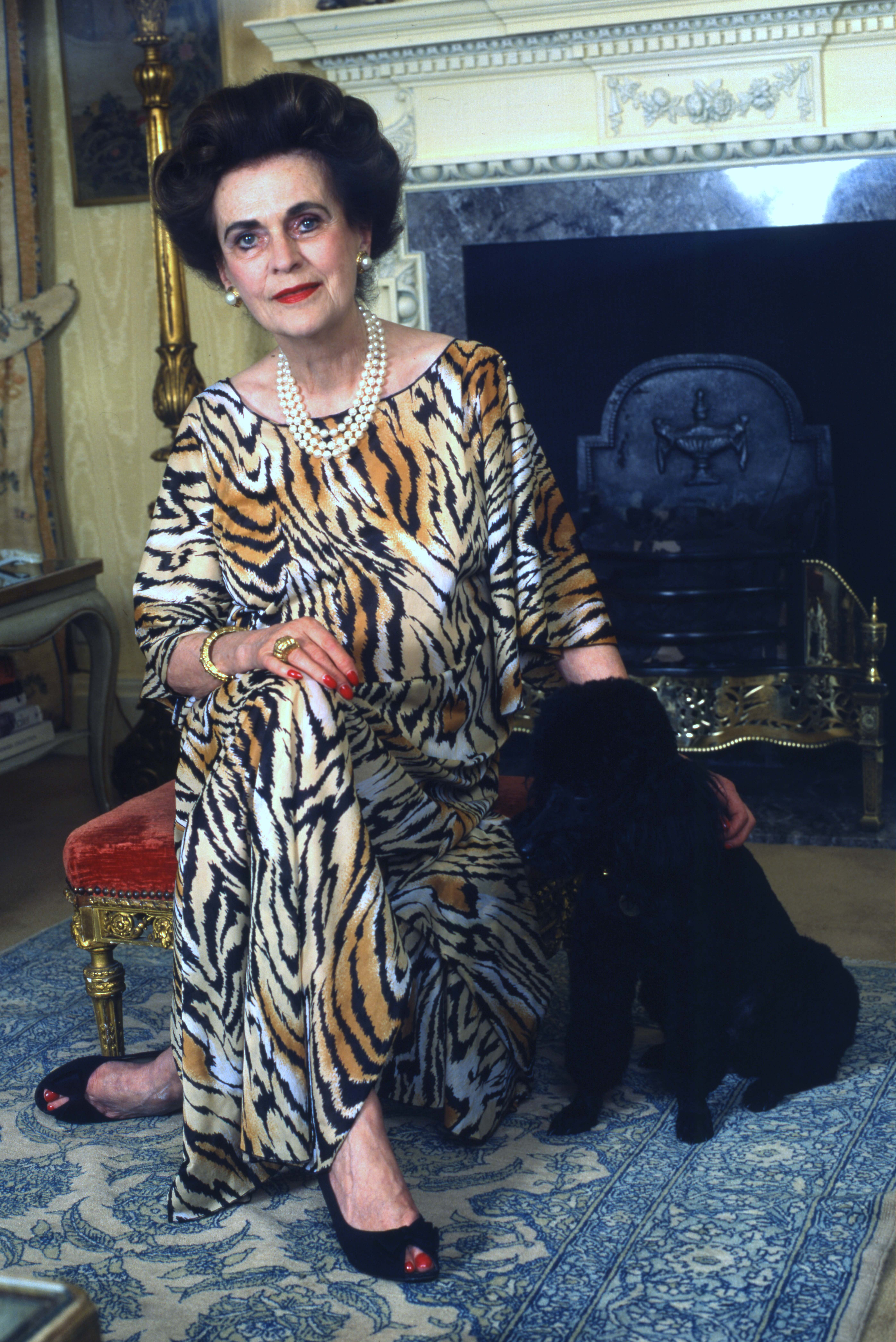 Margaret Duchess of Argyll